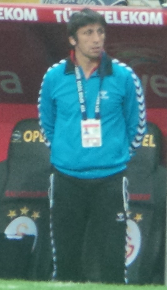 Mert Korkmaz with Konyaspor against GS